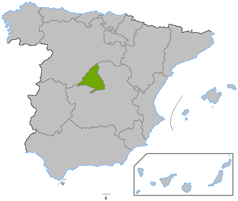 Location of the Community of Madrid, in Spain. Basado en: ProvPont.jpg Source: Designed by Satesclop. Original picture, designed by Sobreira.